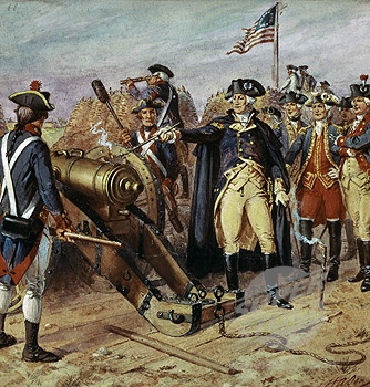 Washington firing the first gun at the Siege of Yorktown